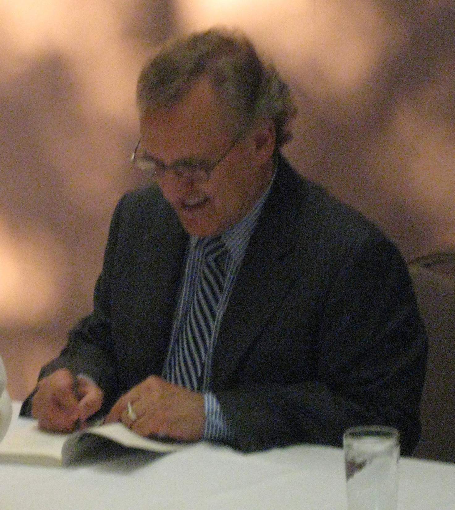 Stephen Lewis signing a copy of his book Race Against Time: Searching for Hope in AIDS-Ravaged Africa after delivering a keynote address while in Prince George, British Columbia.